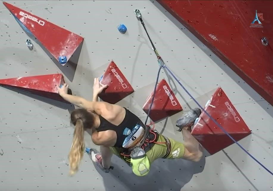 Drop knee technique used by Janja Garnbret at the IFSC Climbing World Championships, Paris, September 17, 2016.